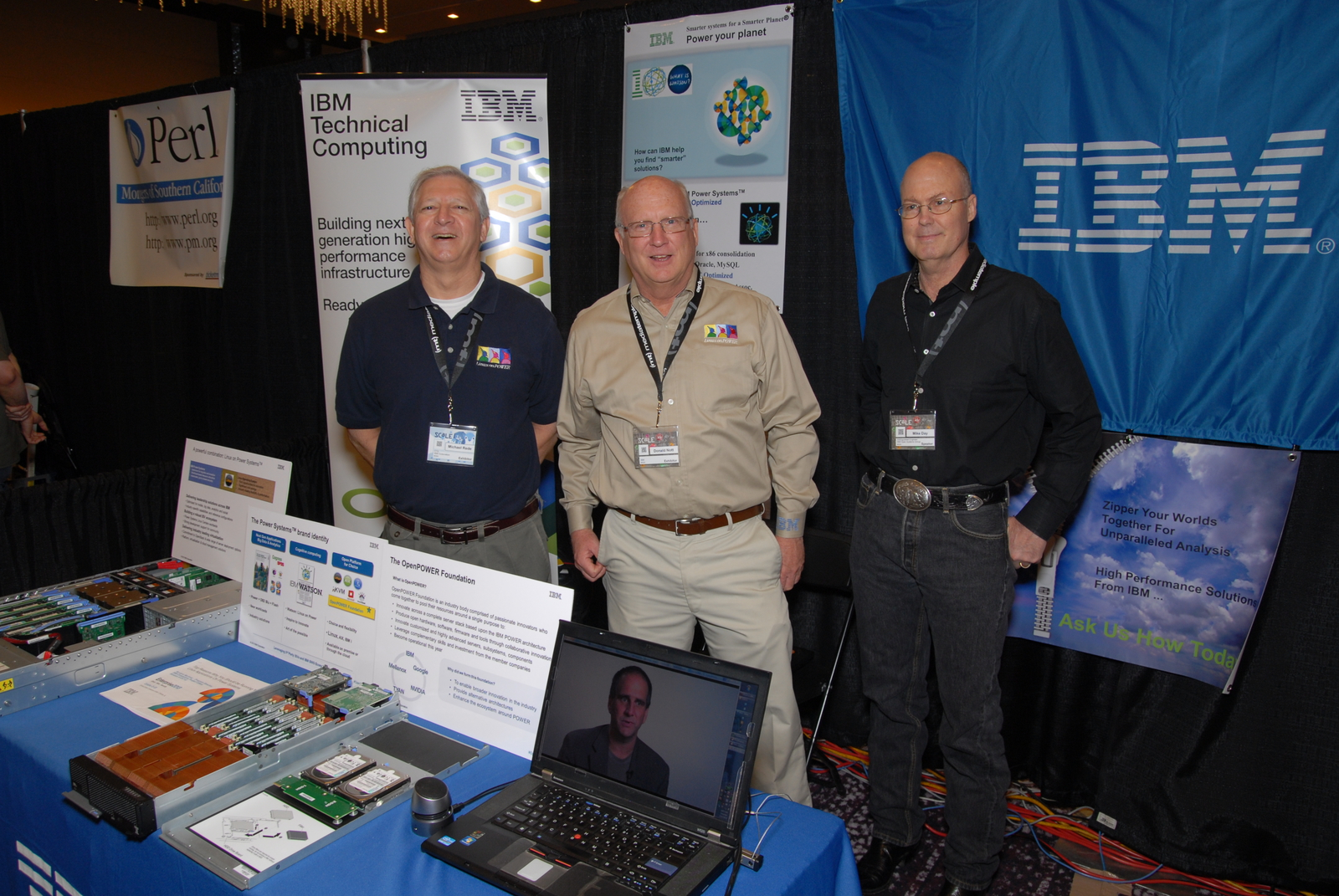 Southern California Linux Expo 2014 IBM NeXtScale System